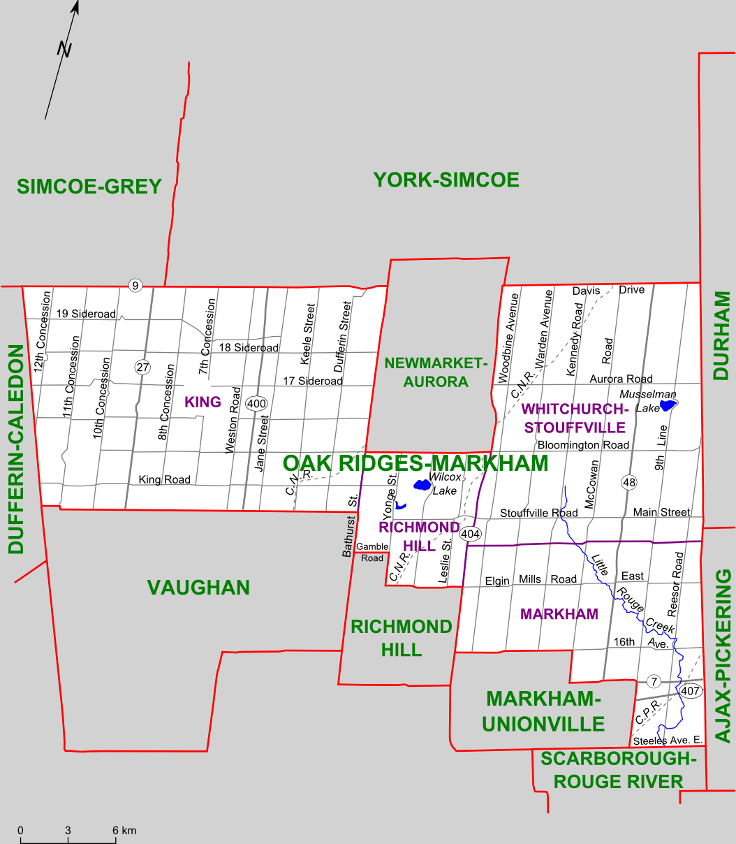 Map of the Ontario federal and provincial riding of Oak Ridges-Markham, as defined in 2003, adopted federally in 2004 and provincially in 2007.